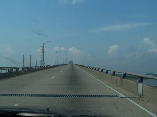 Westbound approach to Rainbow Bridge in Orange County, TX.